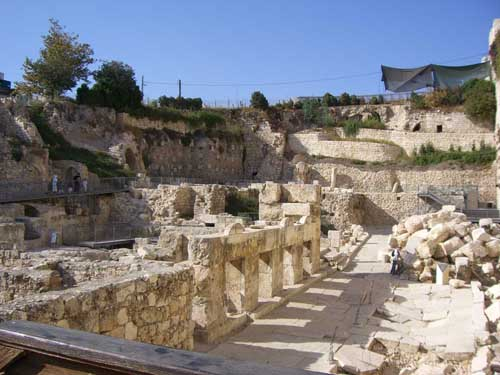 Archeological park Temple Mount